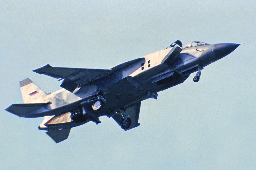 Rare low res photo of the sole Russia - Navy Yak-141 (NATO Codename: Freestyle) hovering out of ground effect at the 1992 Farnborough Airshow, with landing gear down. Note the open inlet door for the forward Lift Engine (and open lower doors) and the down-turned Engine nozzle at rear. (The aircraft had been on static display at Farnborough and the flying display surprised us.) This was the first time this aircraft type had been seen in the West.